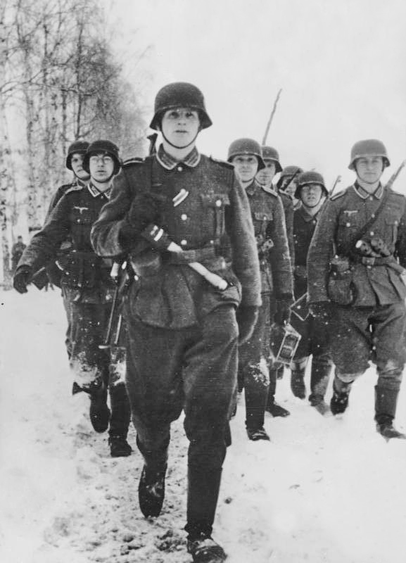 In a training camp of the fascist German Wehrmacht: And again Corporal von W. marshes as the leader of pioneer shock troops on the training field. The training course draws to an end. Soon, von W. will be used at the front as a pioneer lieutenant again.